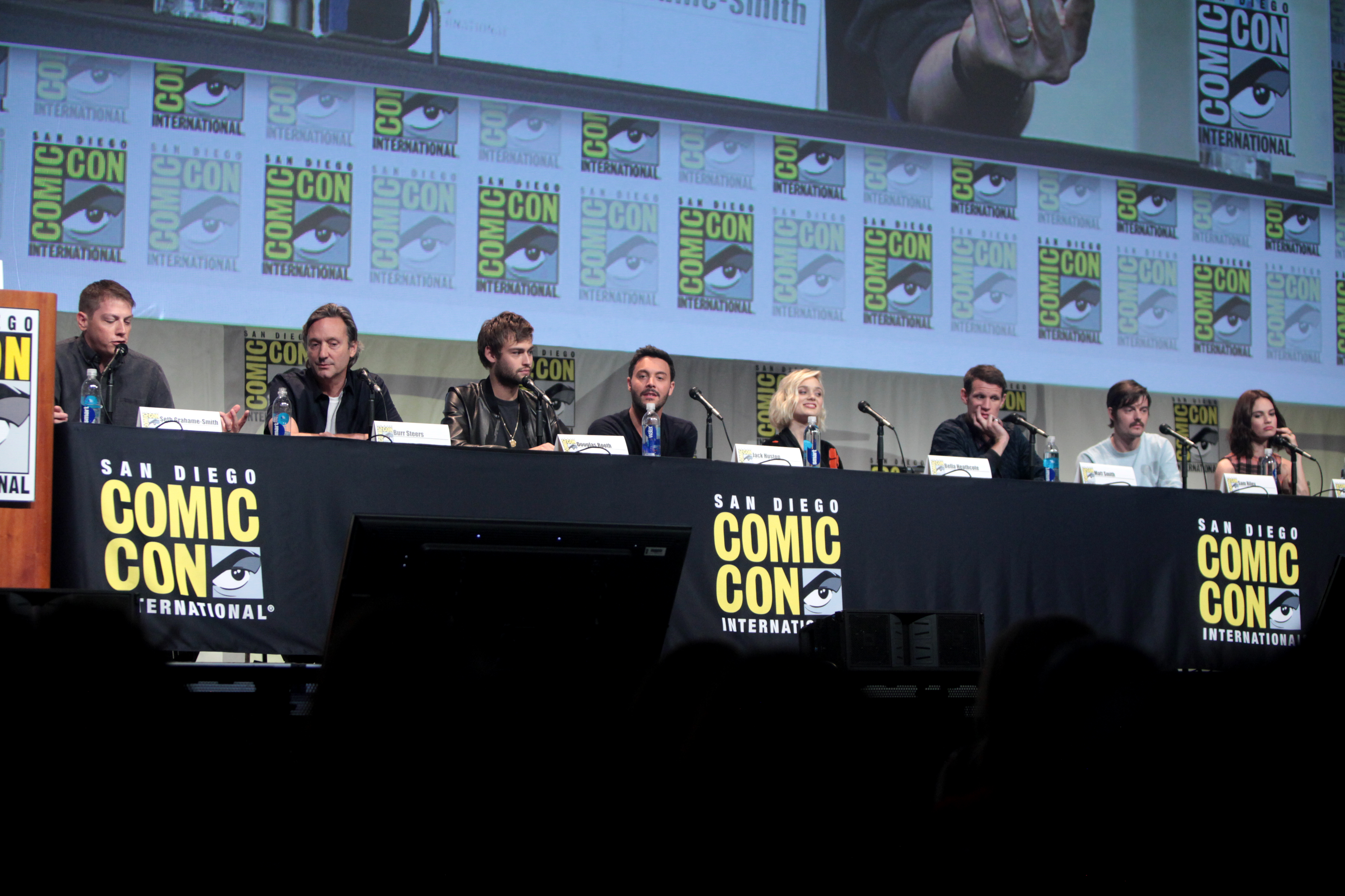 Seth Grahame-Smith, Burr Steers, Douglas Booth, Jack Huston, Bella Heathcote, Matt Smith, Sam Riley and Lily James speaking at the 2015 San Diego Comic Con International, for "Pride and Prejudice and Zombies", at the San Diego Convention Center in San Diego, California.